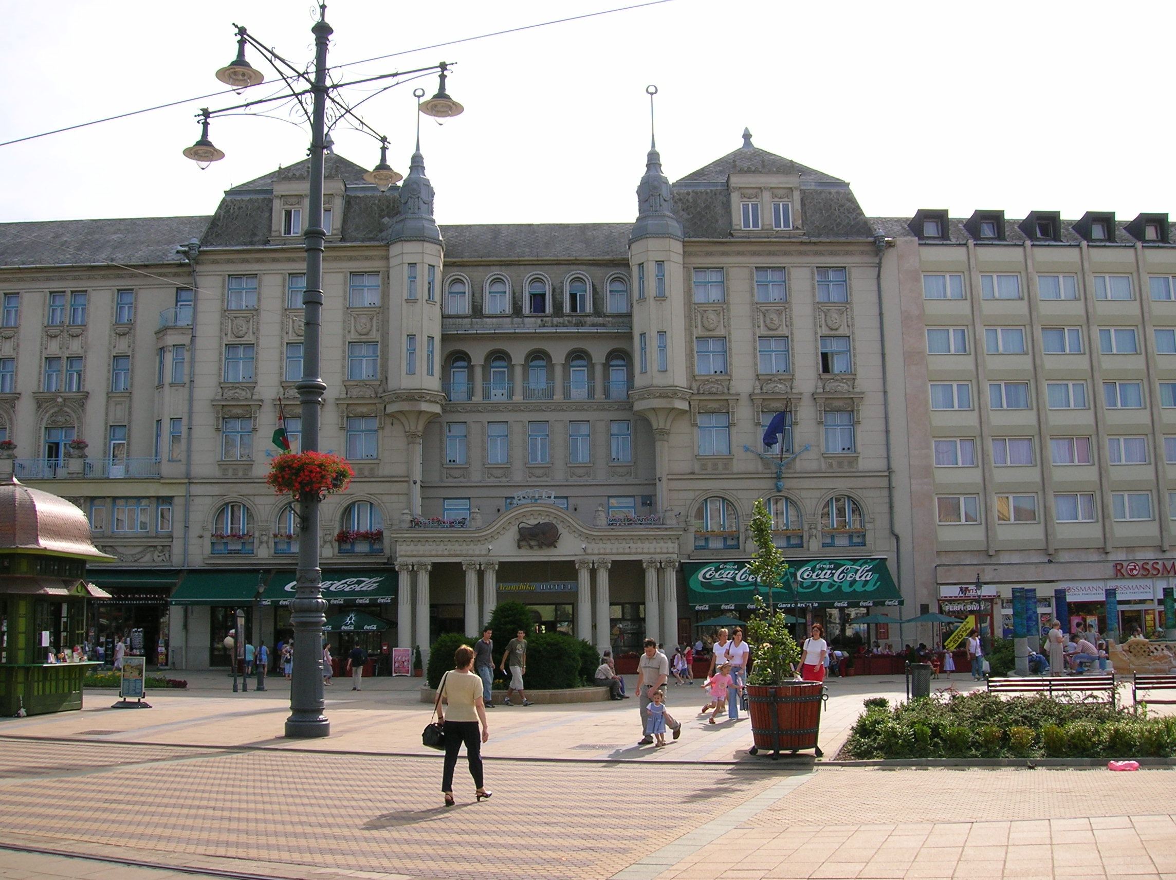 The famous Hotel Aranybika ("Golden Bull") in Debrecen, Hungary.